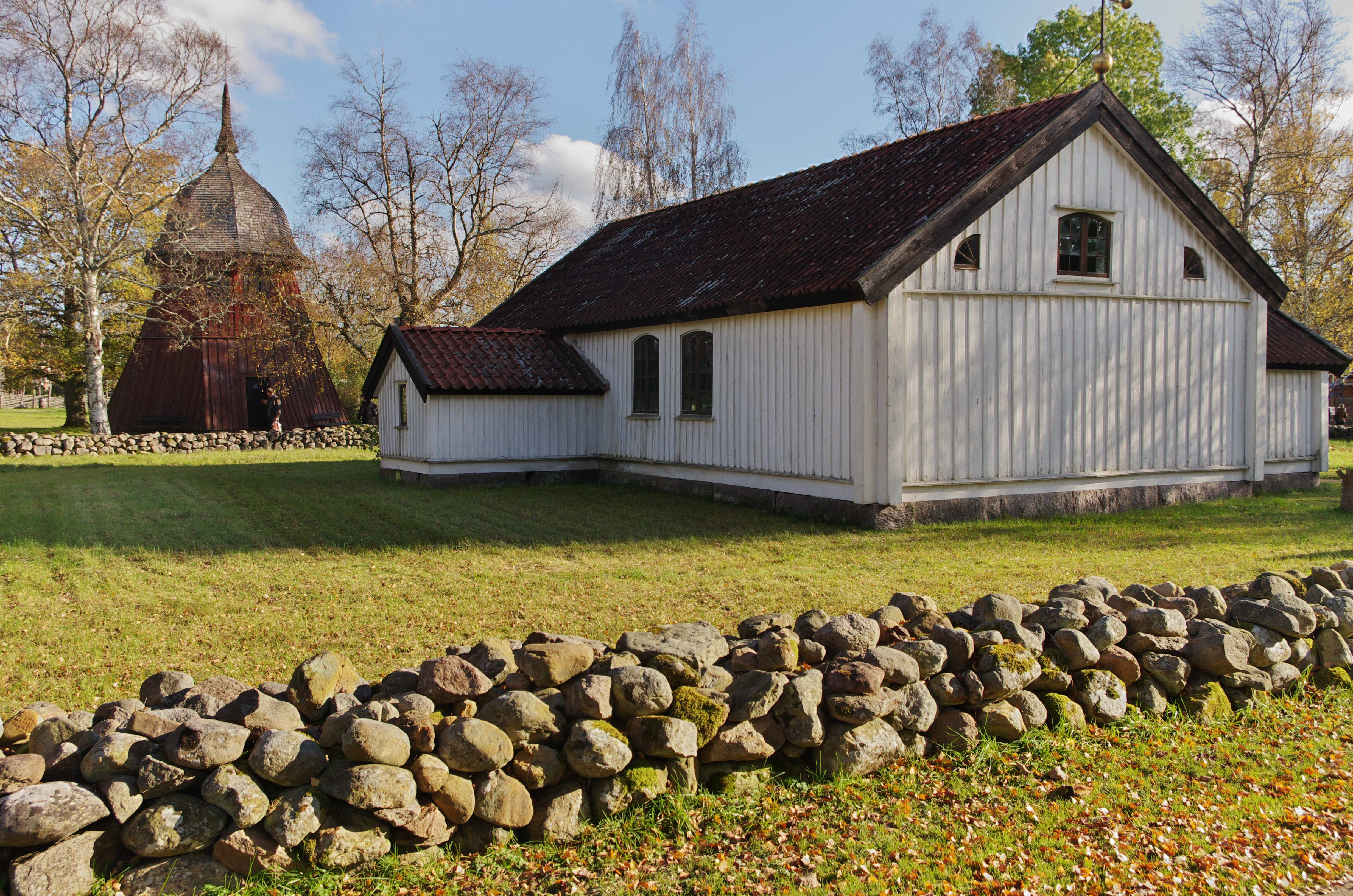 Härjevads kyrka (english:Härjevad church) in Västergötland and Skara municipality in Västragötaland county, Sweden.